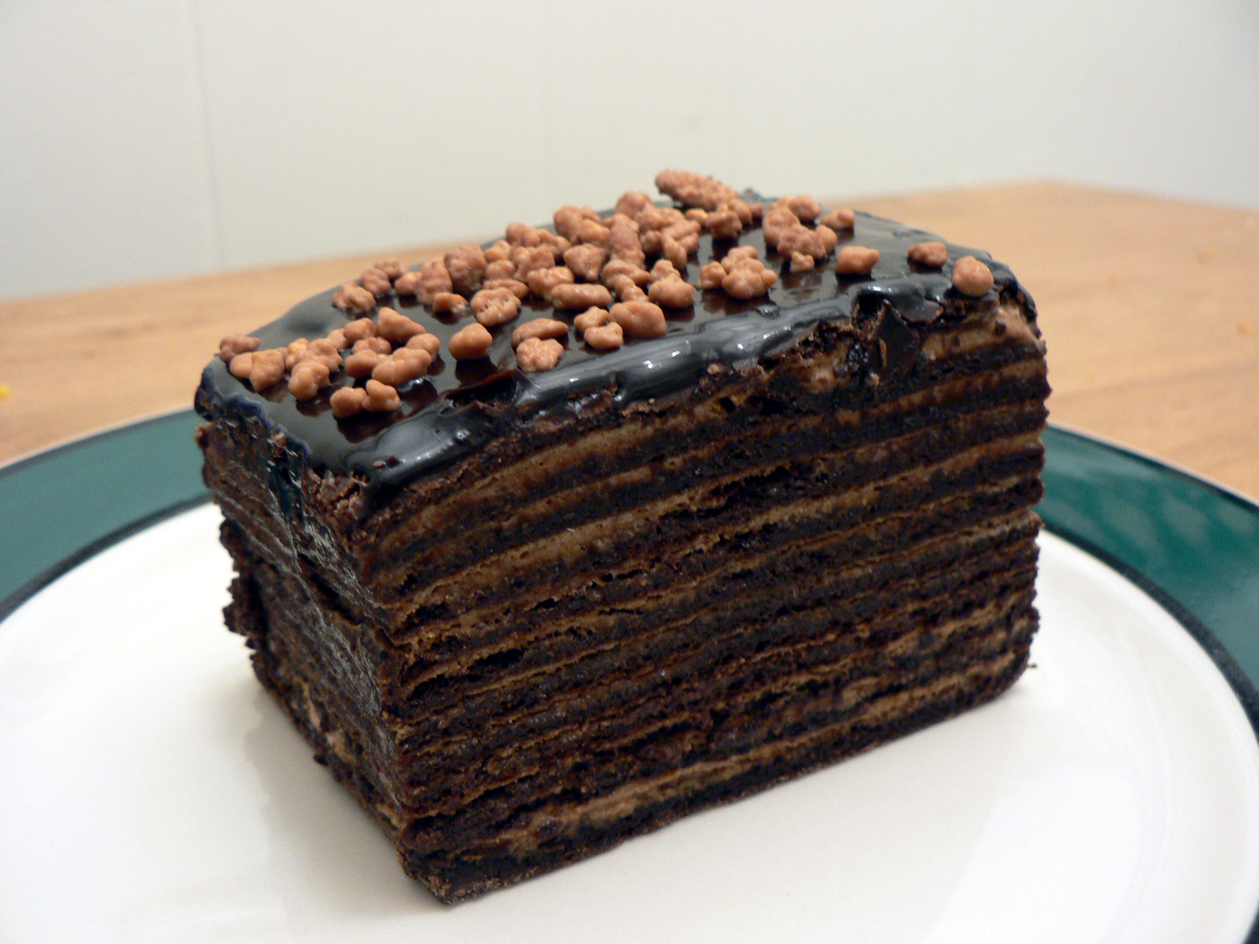 Dobos tort